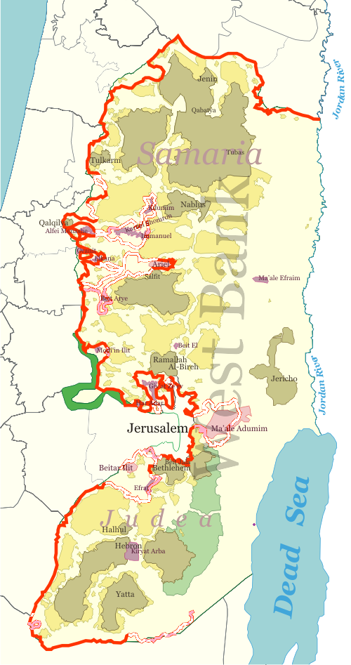 Revised version of the West Bank barrier, as of June 2011. Red: constructed. Pink: under construction. White: Approved, rejected, or proposed. Green Line (1949 Armistice Agreements): green.